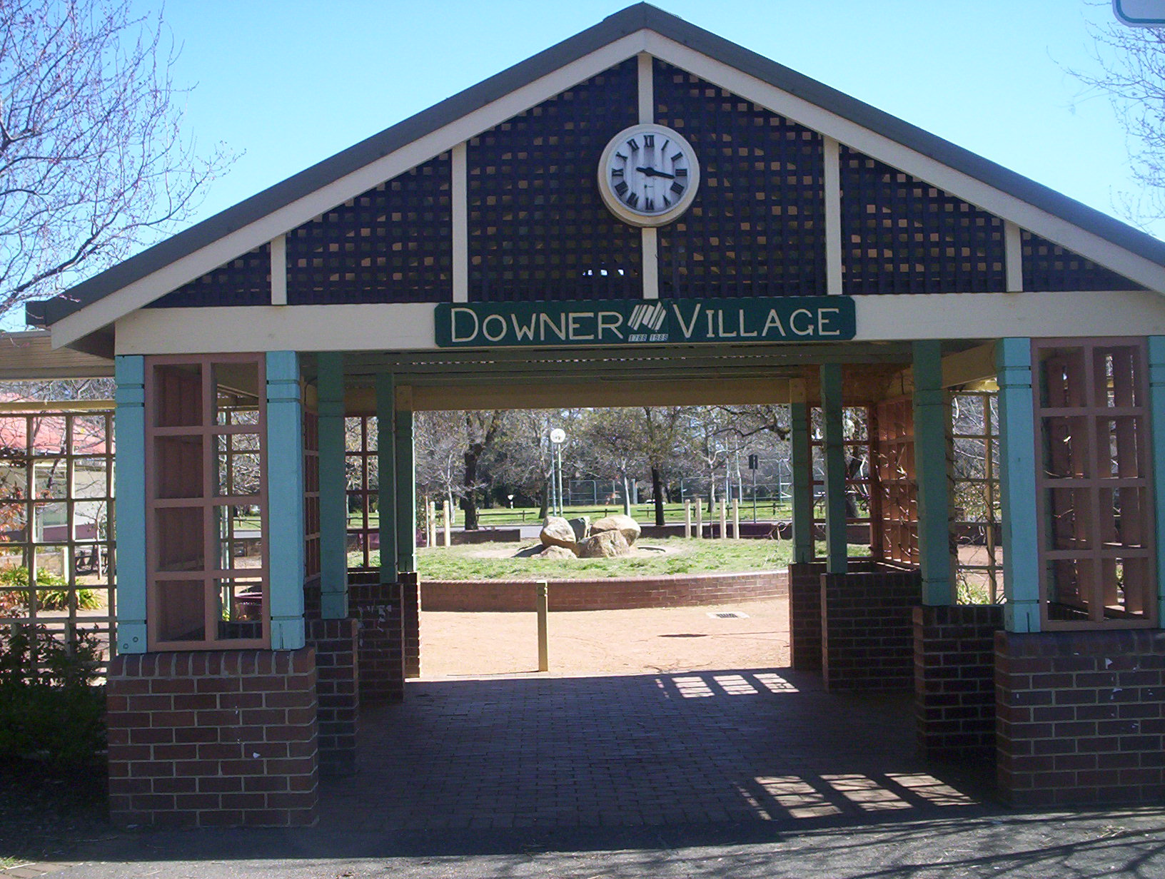 Downer shops, Canberra. Sign reads "Downer Village". I took the photo Cfitzart 03:36, 25 August 2005 (UTC)